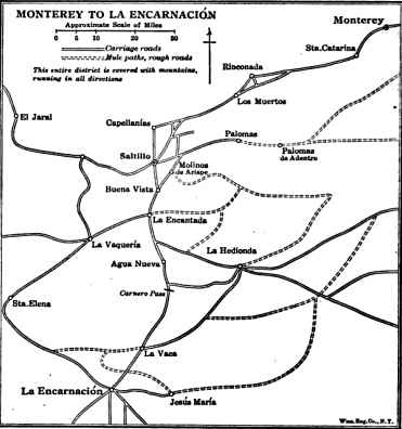 Location of Buena Vista